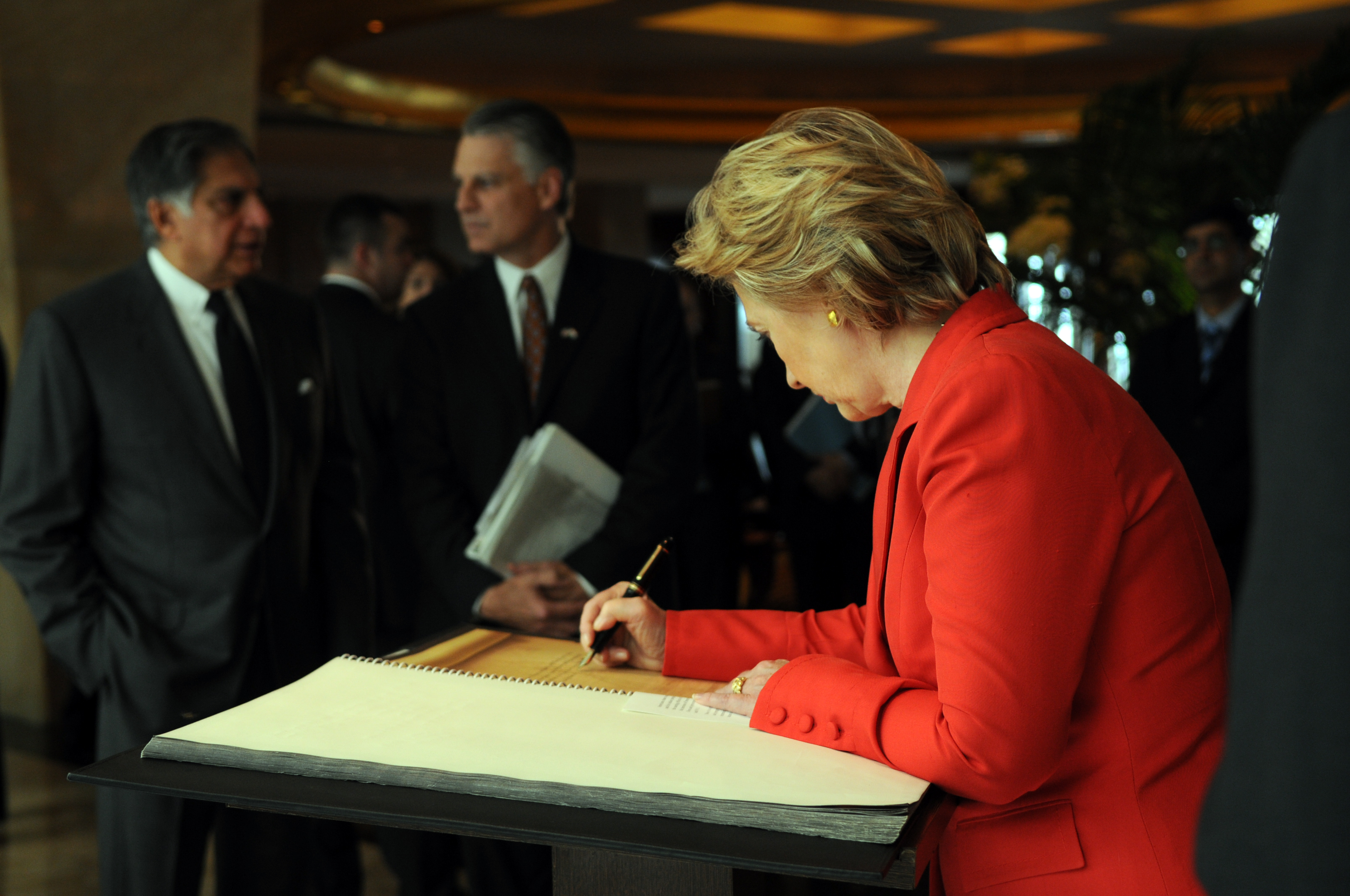 U.S. Secretary of State Hillary Rodham Clinton signs the November 26, 2008 memorial book at the Taj Mahal Palace Hotel in Mumbai. Ratan Tata, Chairman of the Tata Group (L), and Timothy J. Roemer, U.S. Ambassador-Designate to India (R), stand in the background. [State Department photo]